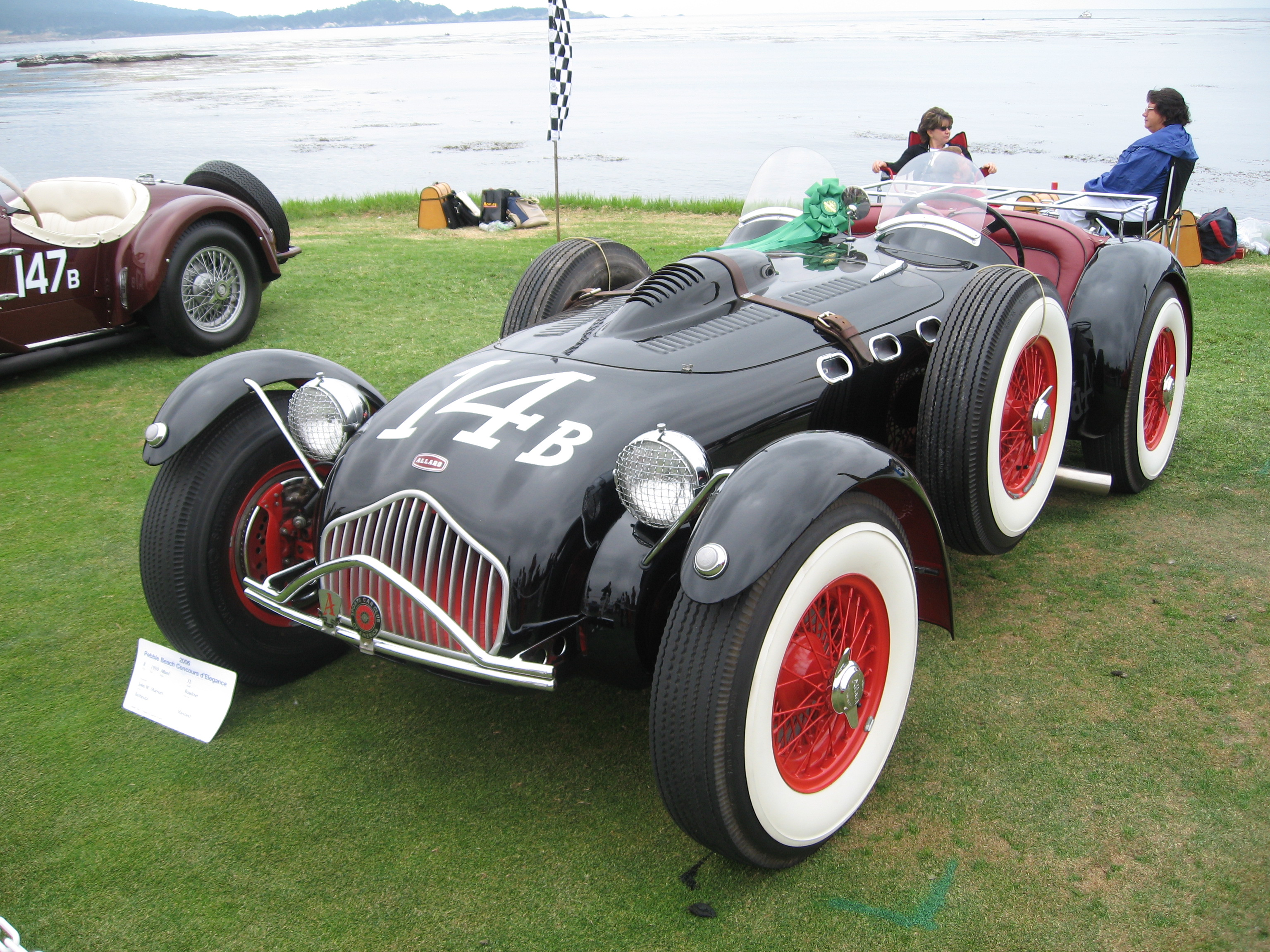 1950 Allard J2 roadsterIMG_4000